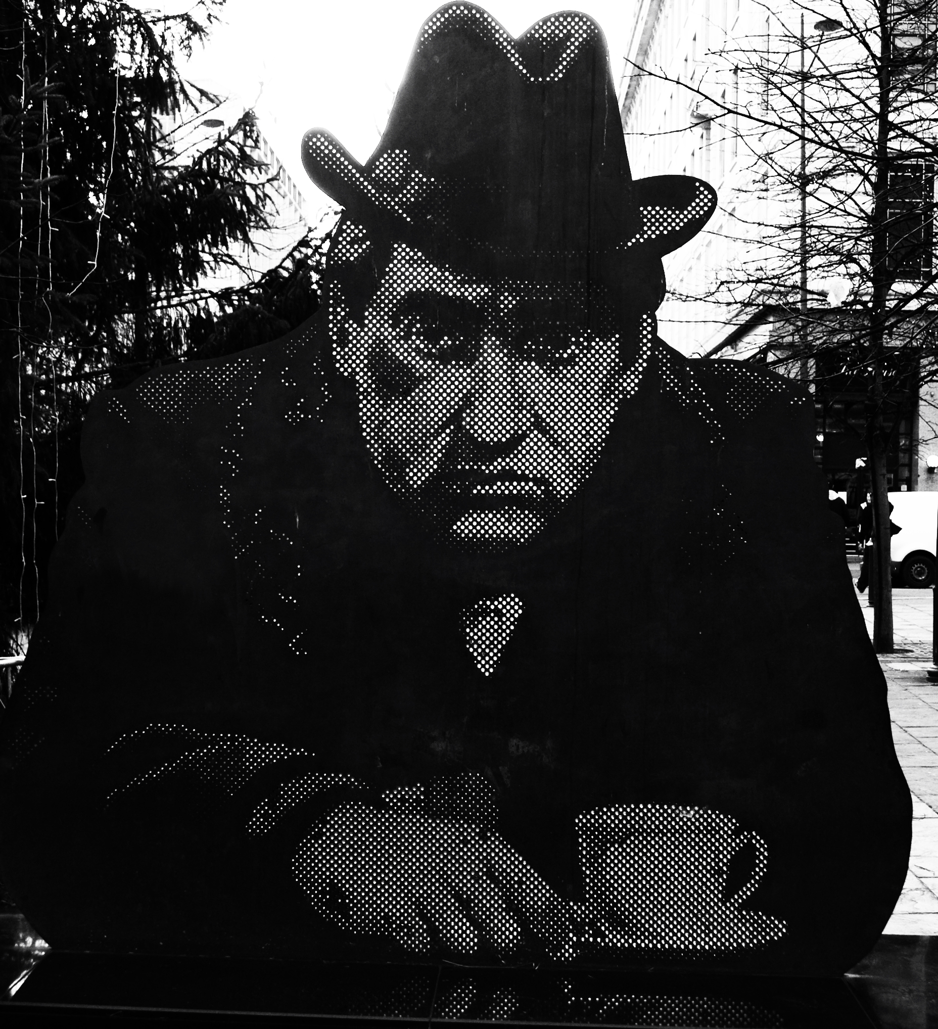 I had a meeting at Maple House at the top of Corporation Street today and I am ashamed to say I had never spotted this memorial to Tony Hancock just outside the building